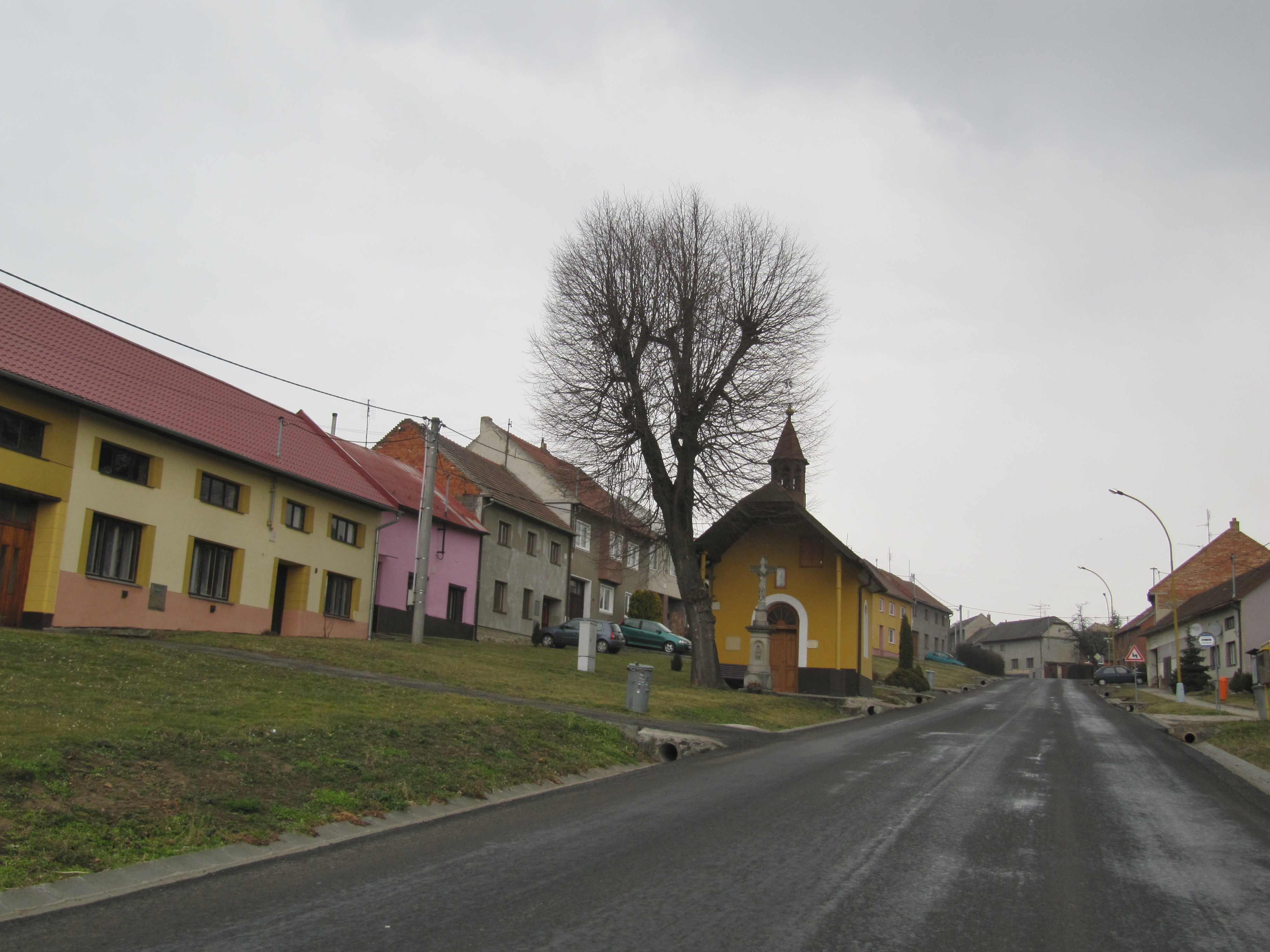 Zborovice, Kroměříž District, Czech Republic, part Medlov.